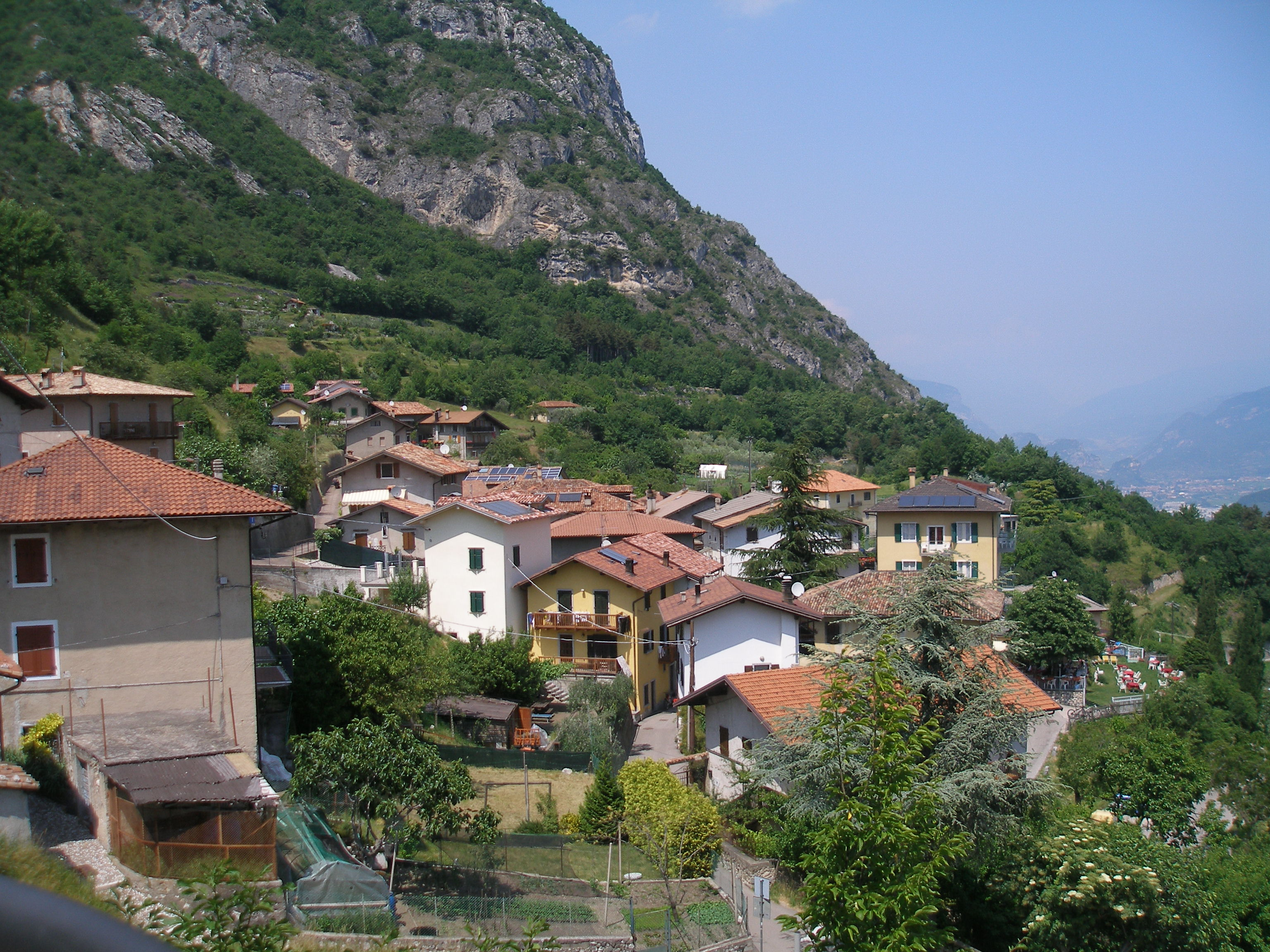 Pregasina